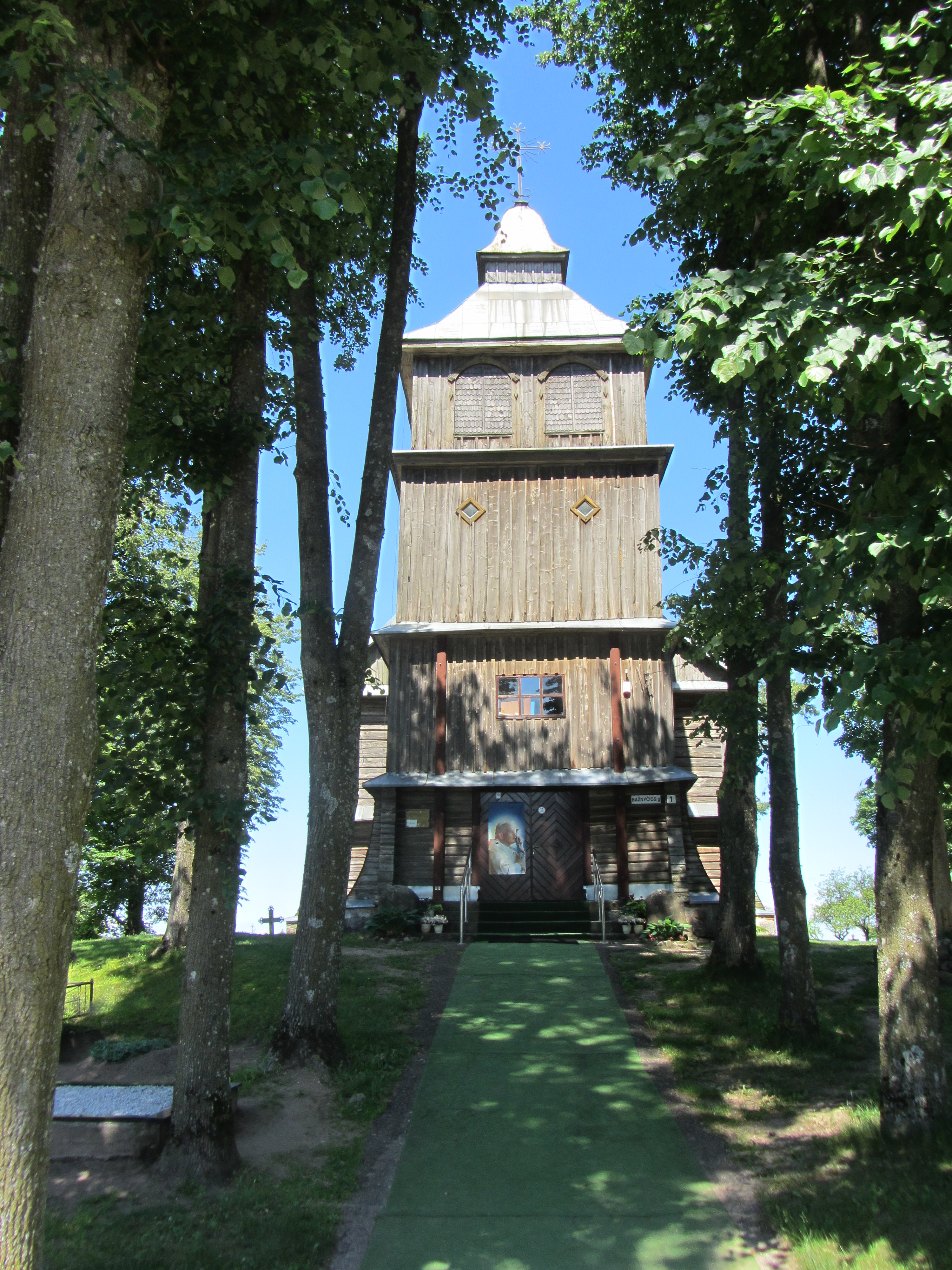 Alionys I, Lithuania